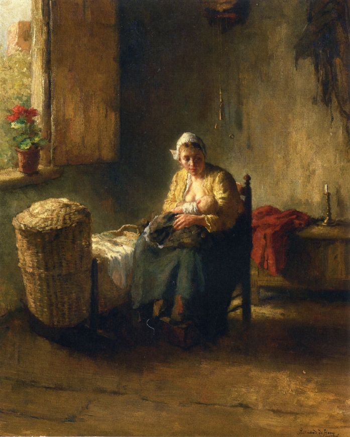 De moeder